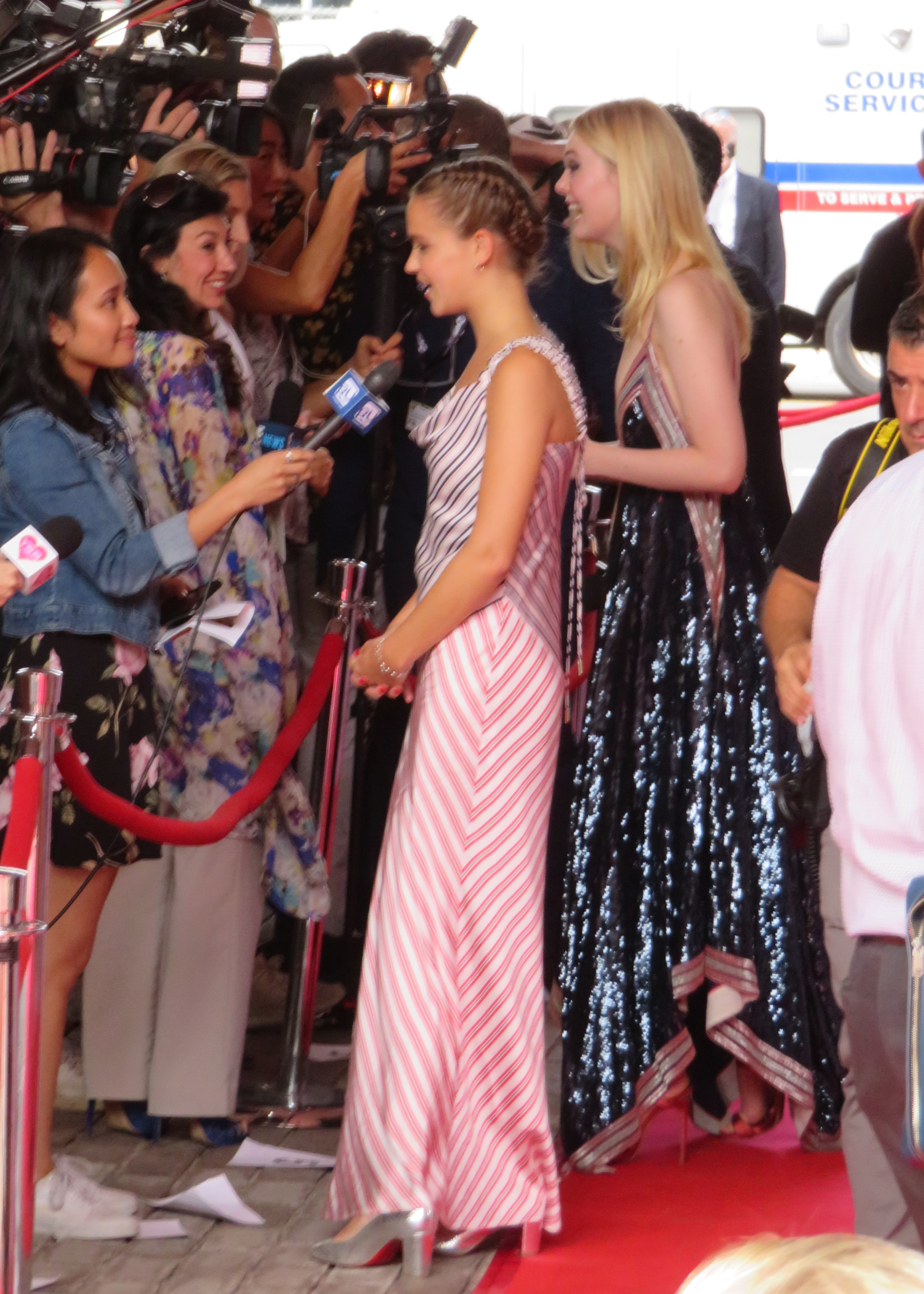 Elle Fanning at the premiere of Teen Spirit, 2018 Toronto Film Festival.